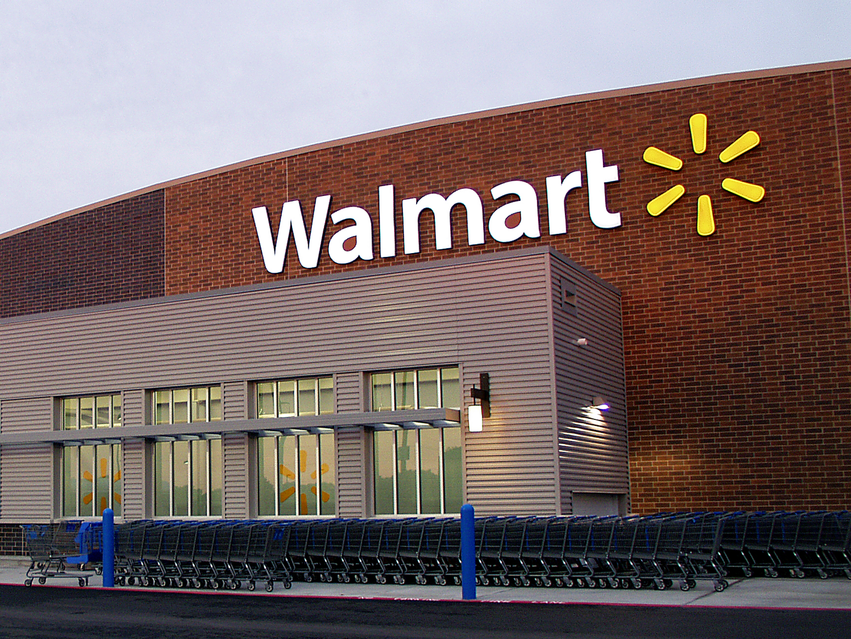 In 2008, Walmart changed it's logo from Wal-Mart to Walmart.